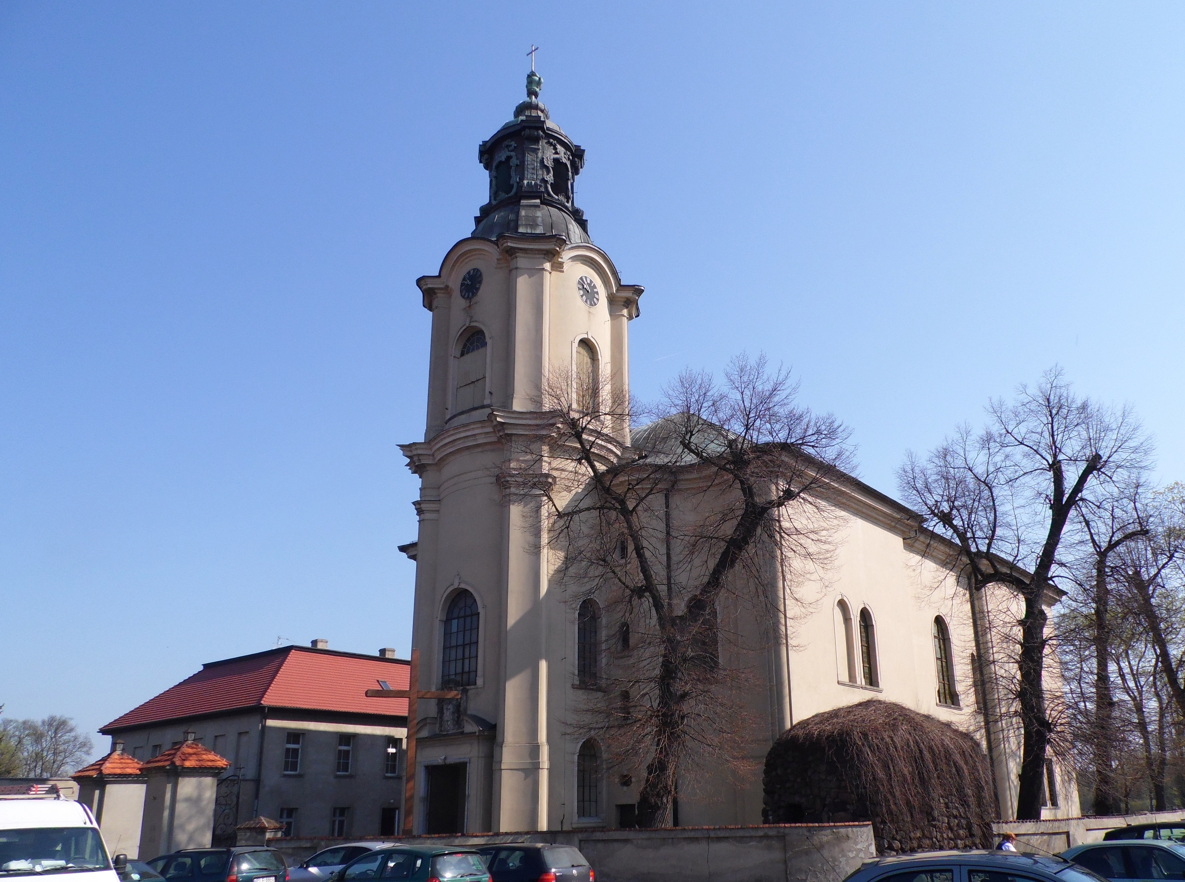 Church. St. Stanislaus years 1742 - 1749 (p. pd. - West.) Rydzyna / area. Leszno / province. Greater Poland / Poland